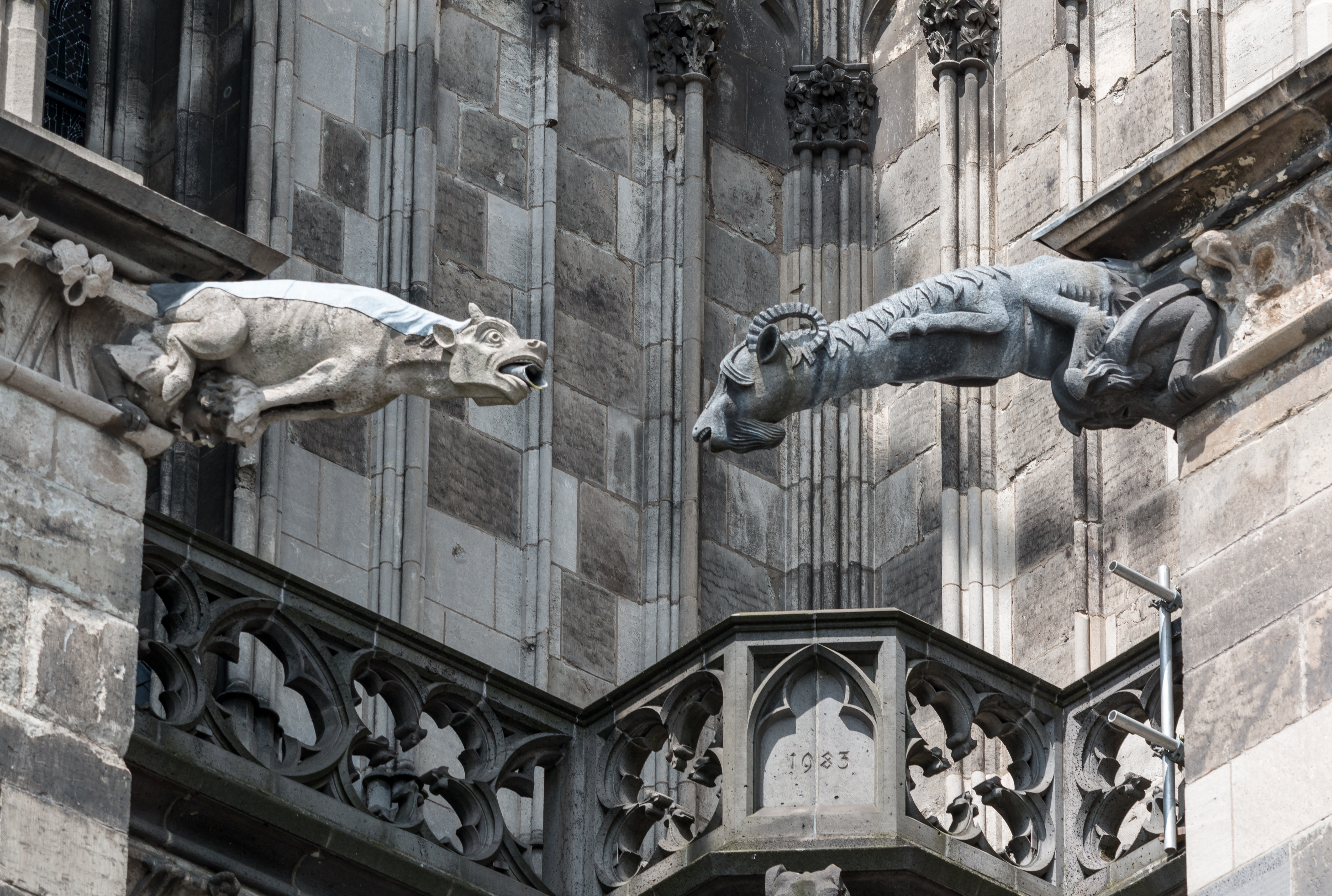 Gargoyle at the Cathedrale, Cologne, North Rhine-Westphalia, Germany This image shows a heritage building in Germany, located in the North Rhine-Westphalian city Köln (no. 911).